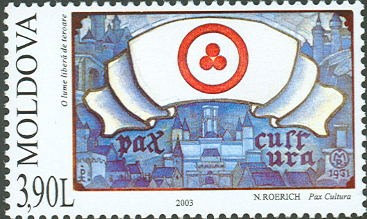 Postal Stamps of Moldova